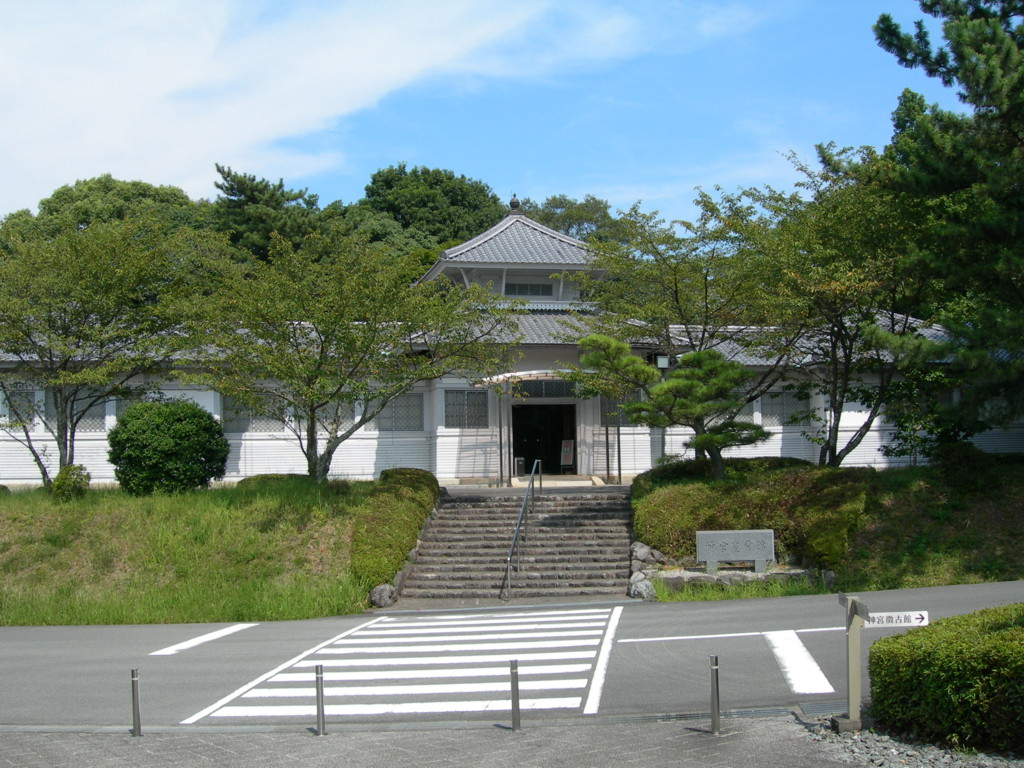 The Jingu Museum of Agriculture (Jingu Nogyokan) at Ise city Mie Prf. Japan.